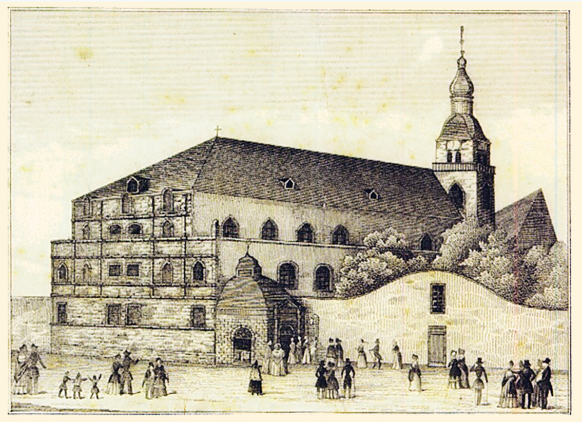 The lithography is attributed to Emil Adolf and was made in teh 19th century